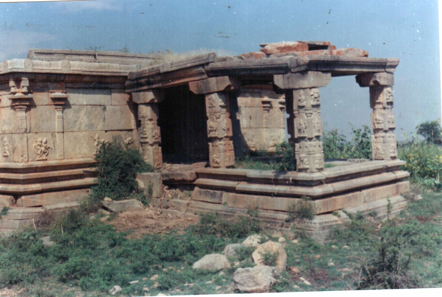 Chennakesava temple,Sadali, Kolar District,Karnataka State, India taken by self in 1995 Summary Chennakesava temple,Sadali, Kolar District,Karnataka State, India taken by self in 1995